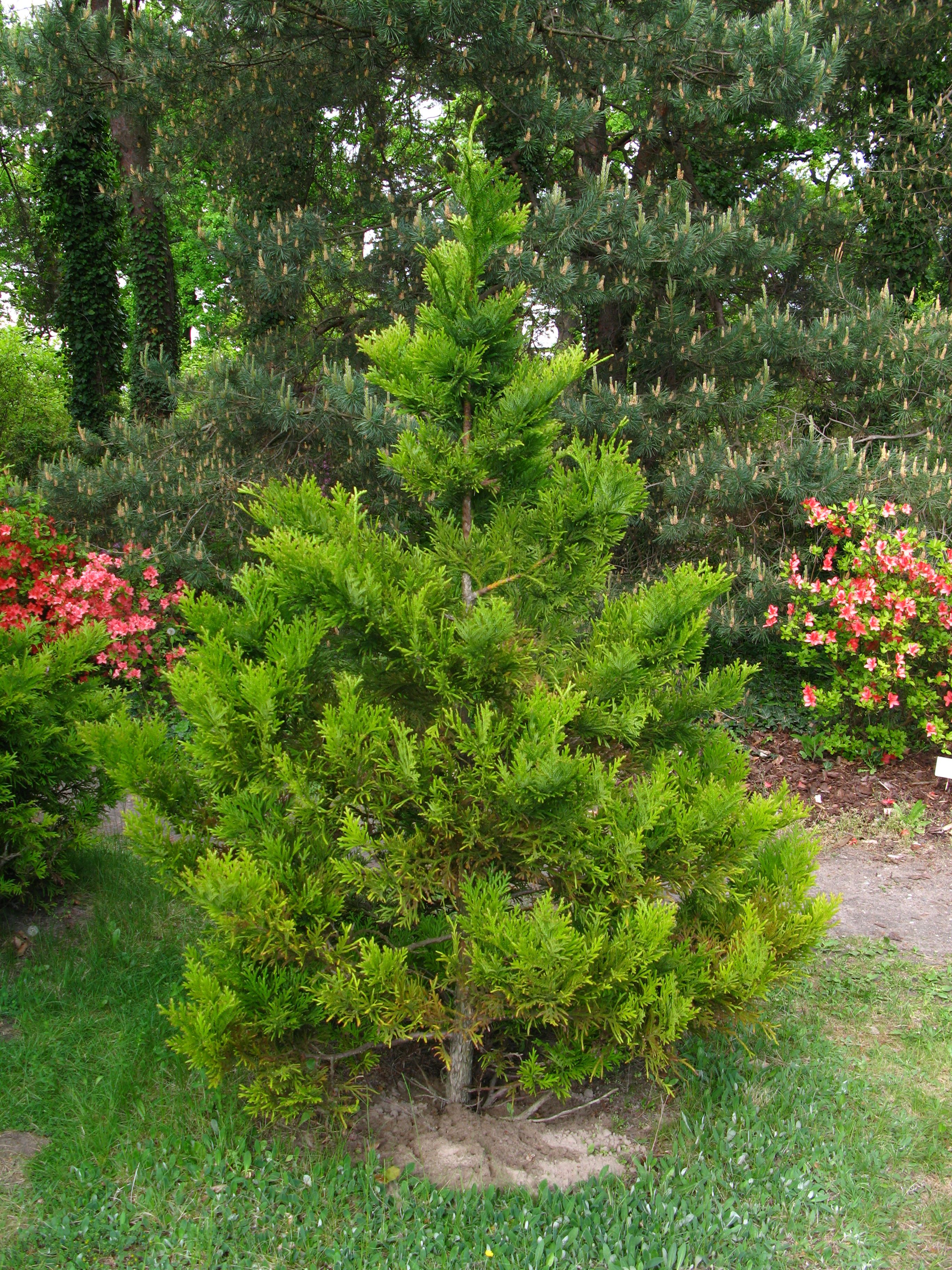 Thujopsis dolabrata in PAN Botanical Garden in Warsaw